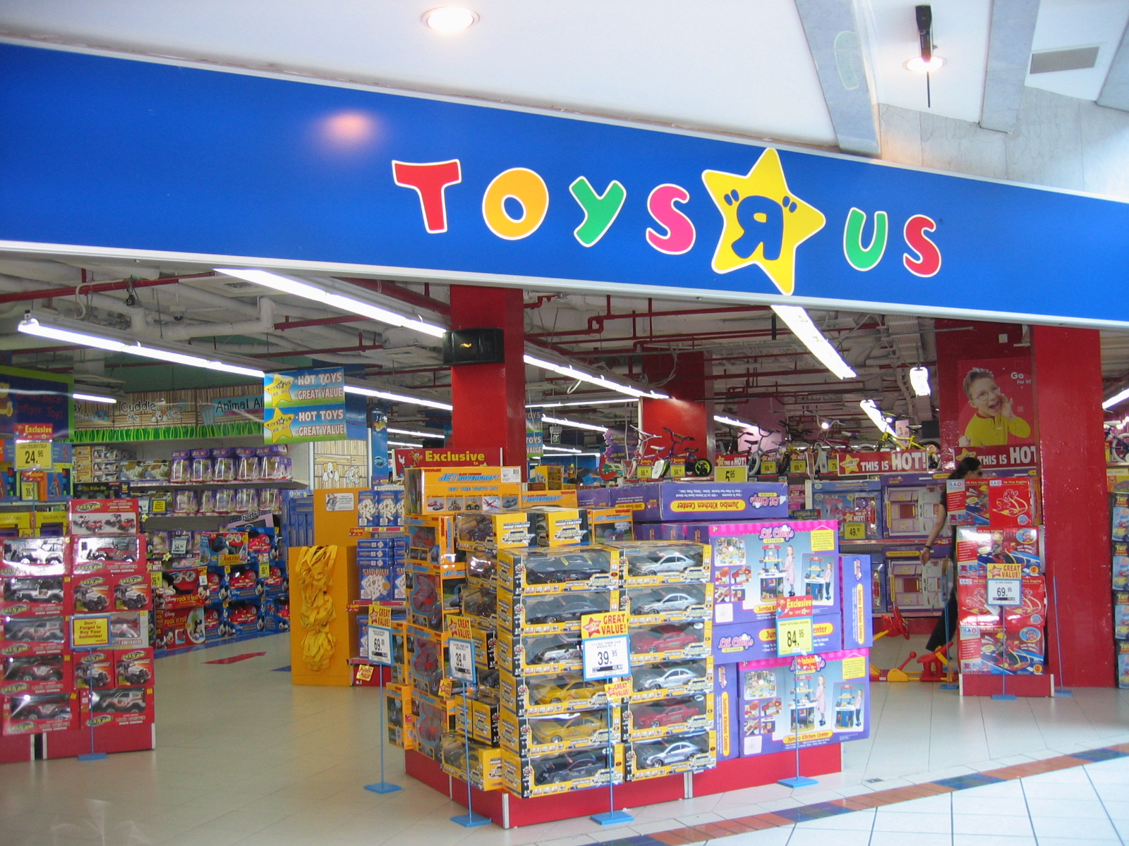 A Chandra Toys store at Forum The Shopping Mall, Singapore.